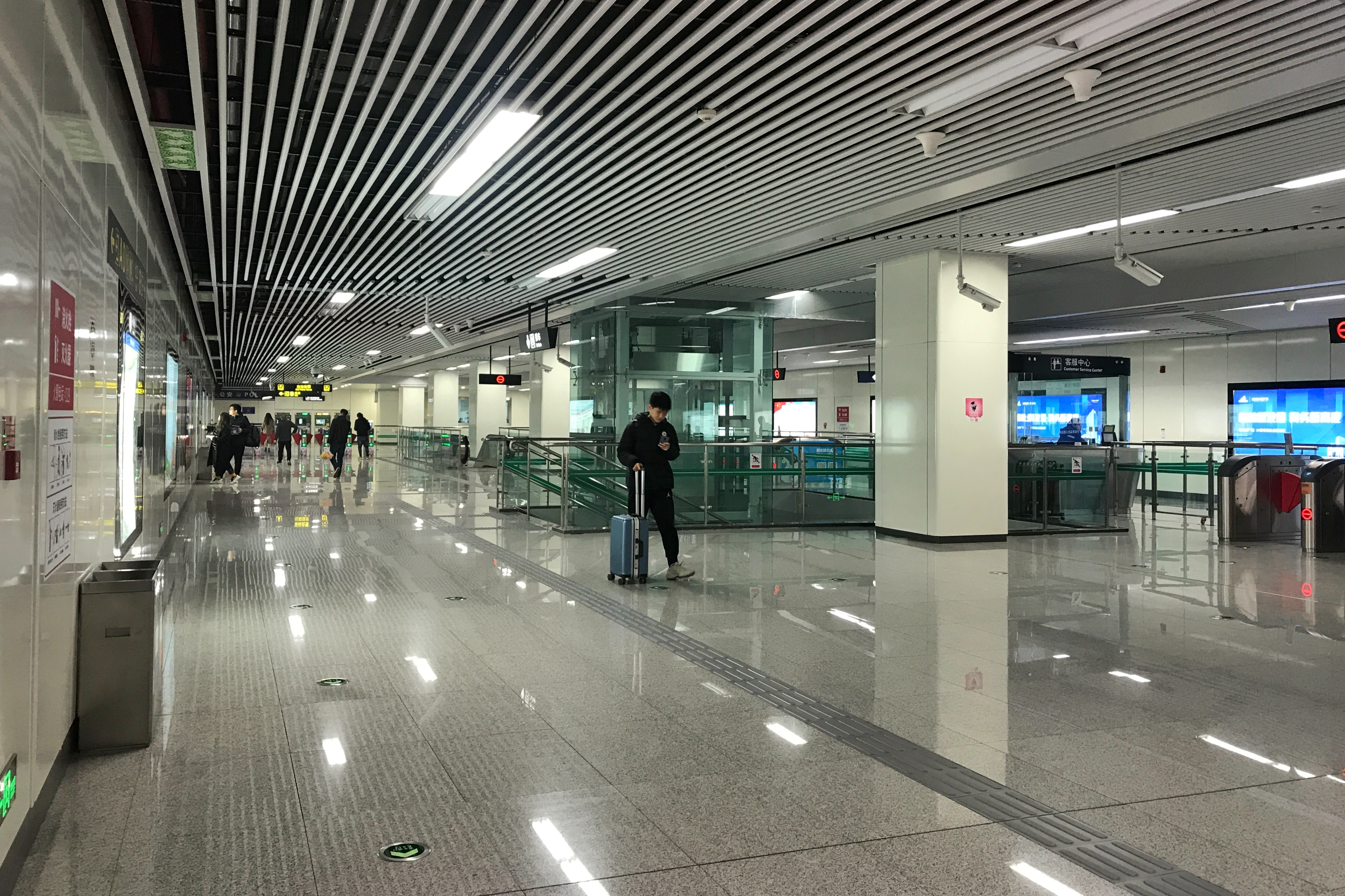 Concourse of Zhacheng Station, Zhengzhou Metro